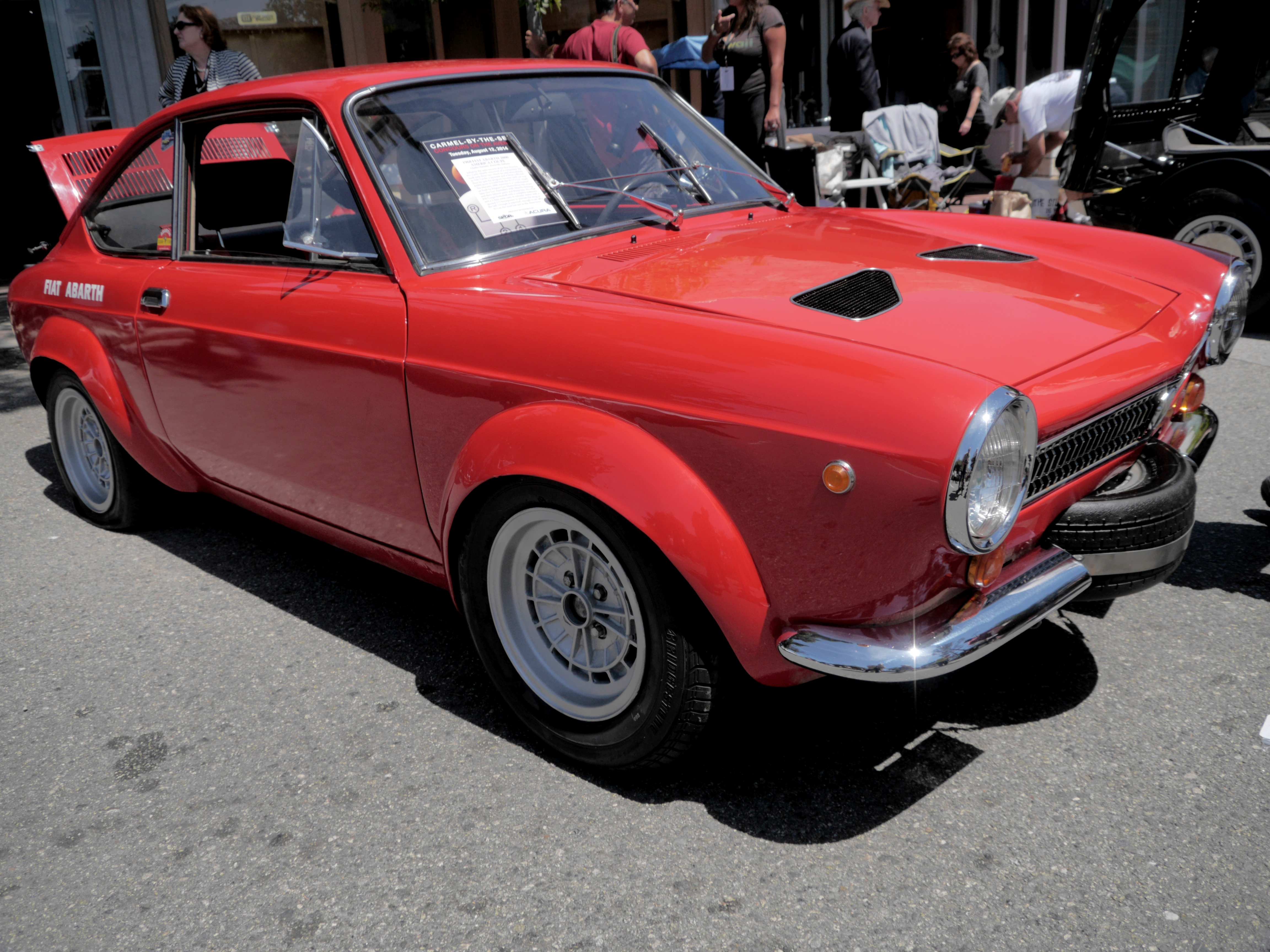 Concours on the Avenue 2014